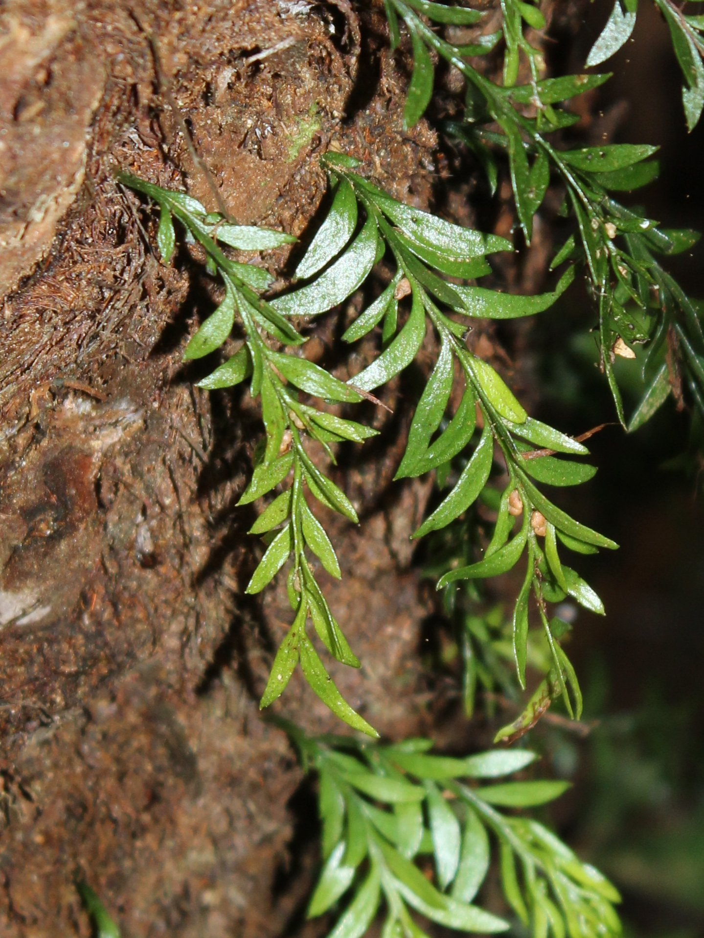 Tmesipteris parva Mount Dromedary southern New South Wales